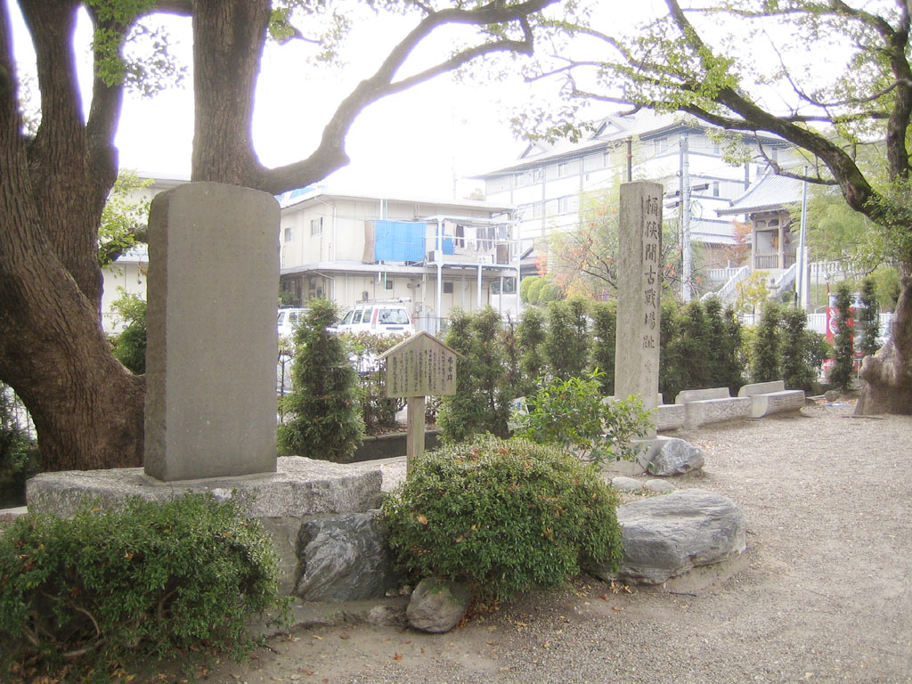 Okehazama Old Battle Field (桶狭間古戦場), in Toyoake, Aichi, Japan